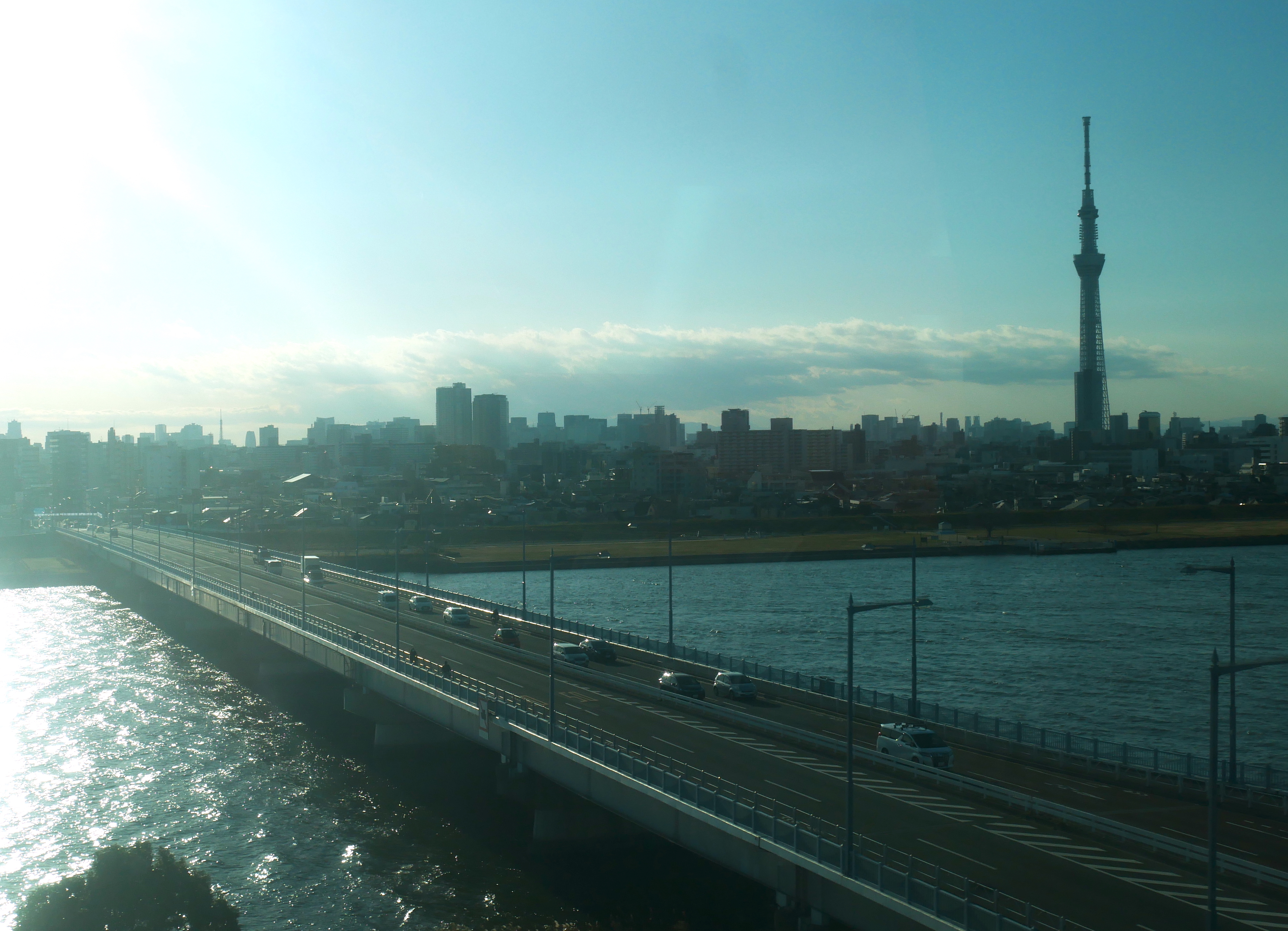 平井大橋 (Hirai Great Bridge) Panasonic Lumix DMC-GX7 Mark II